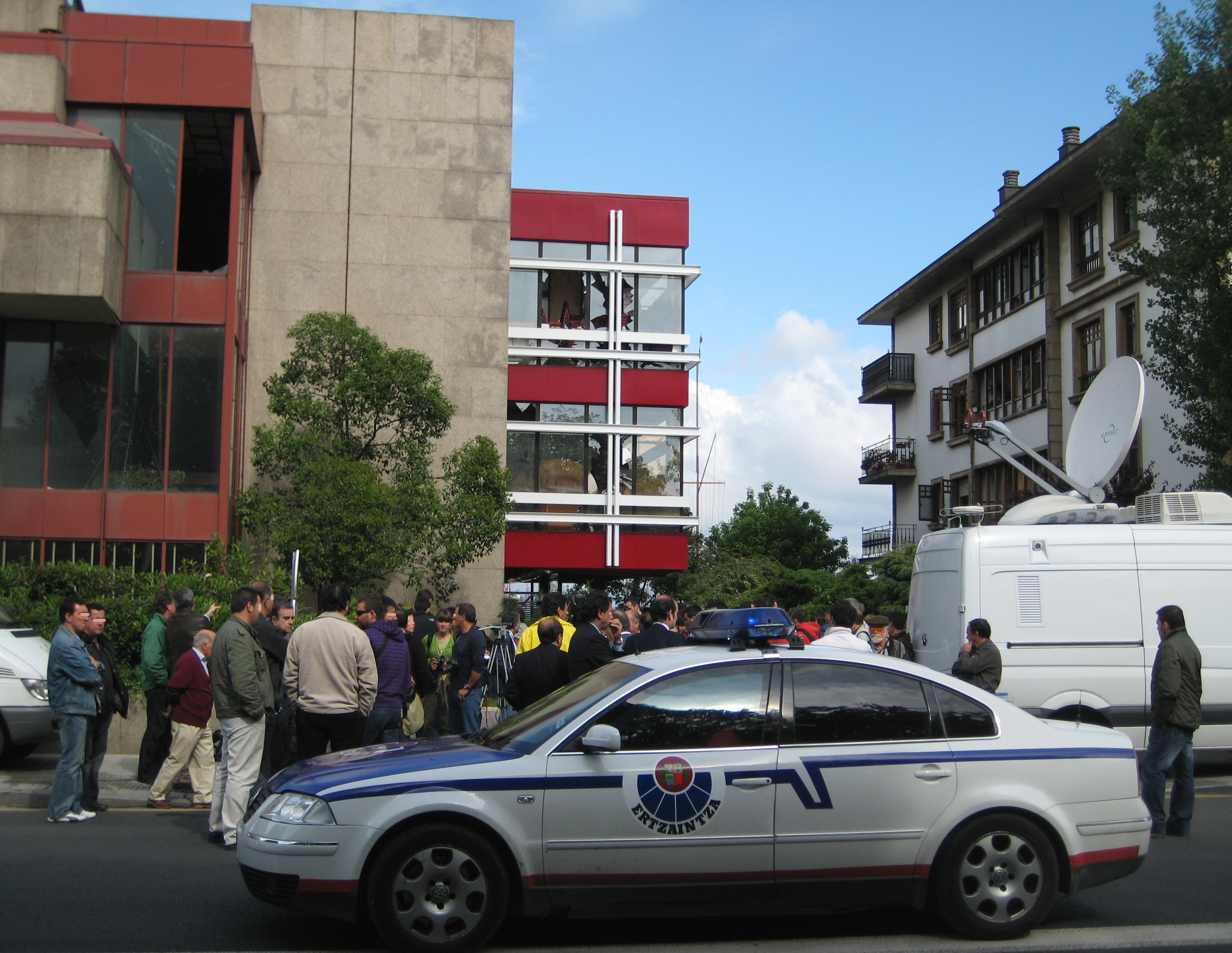 A Ertzaintza (Police of the Basque Autonomous Community) passes by the Club Marítimo del Abra, at Areeta-Las Arenas, Getxo, the morning after the explosion of a van bomb caused damages to this and other buildings nearby